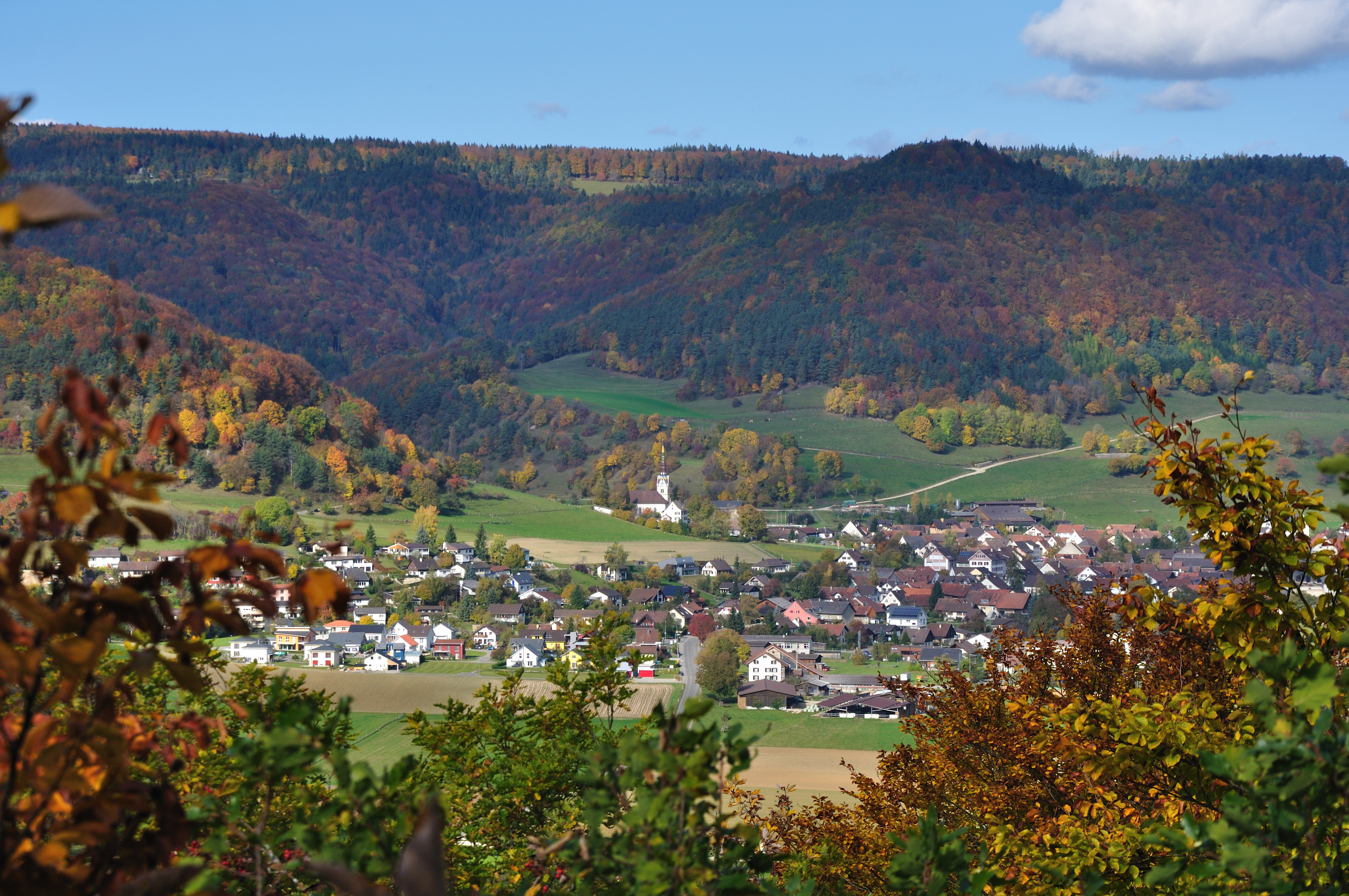 Switzerland, Canton of Schaffhausen, hike on Reiat, a hilly area northeast of Schaffhausen